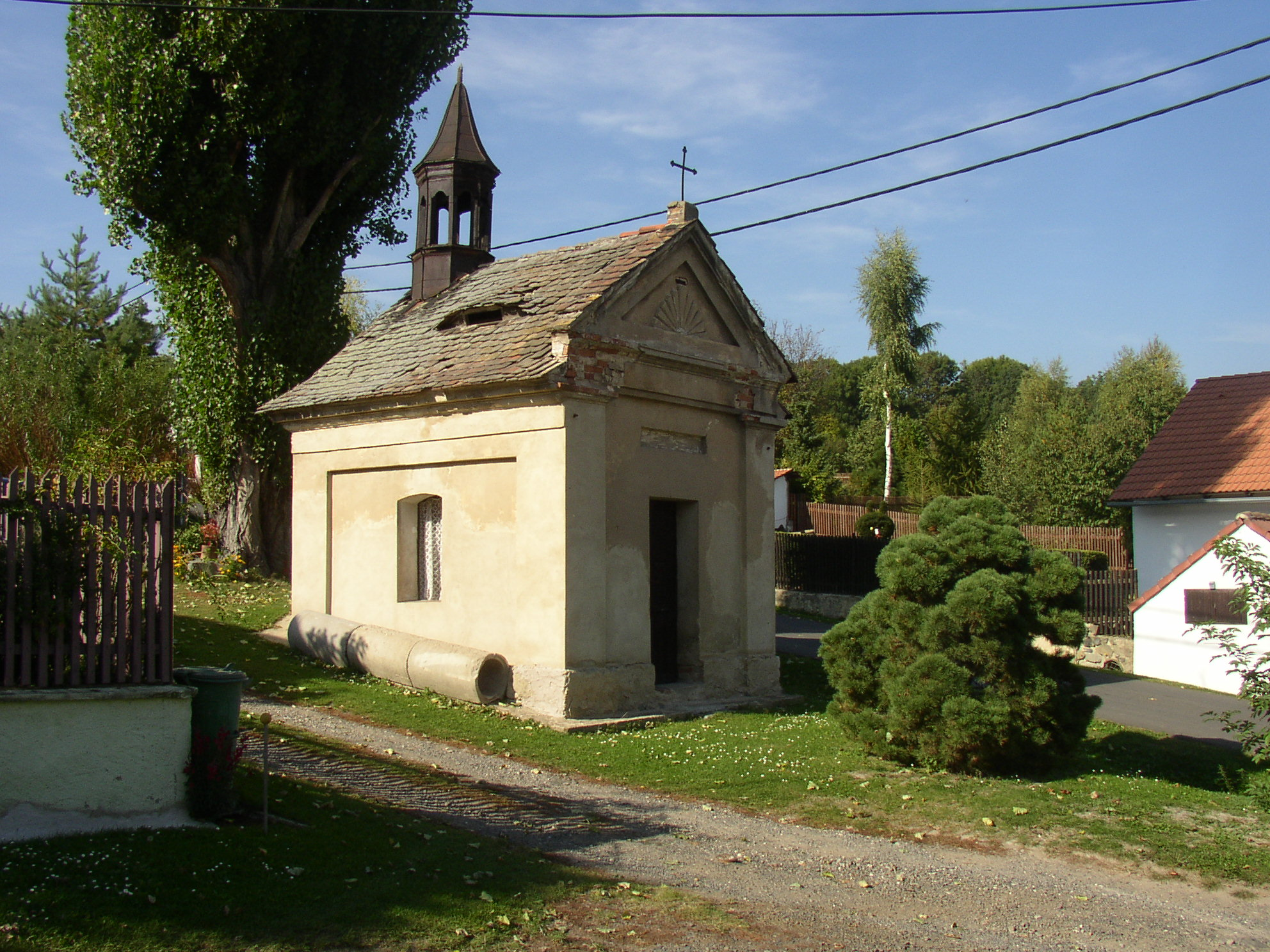 Děkovka, Litoměřice District, Czech Republic. Chapel in middle of the village.